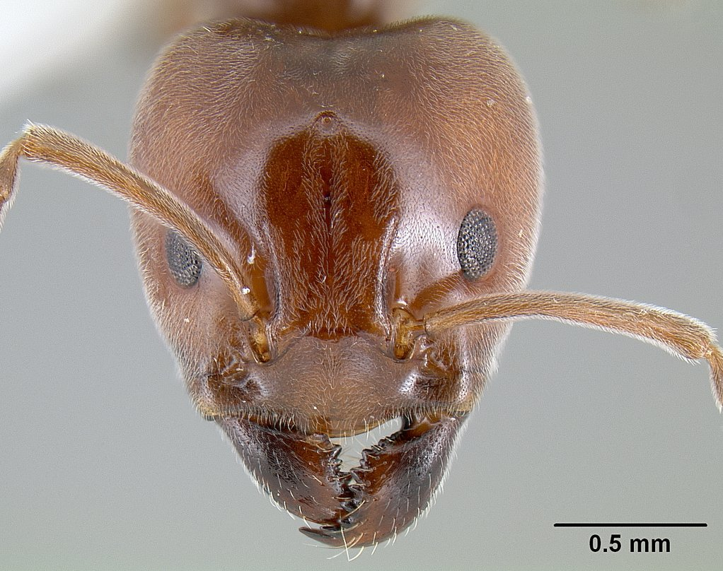 Head view of ant Azteca schimperi specimen casent0106172.